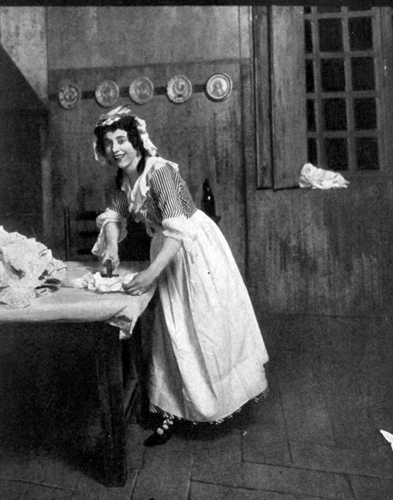 Umberto Giordano - Madame Sans-Gêne - Geraldine Farrar as Catherine Hubscher